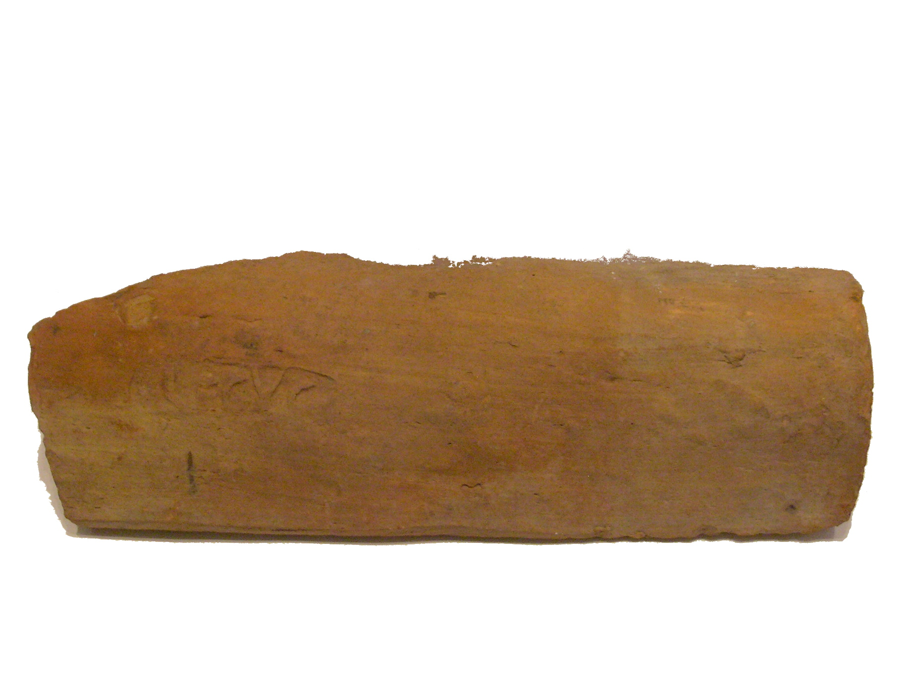 Roofing Tile (imbrex), Ceramic, 2nd/3rd Century A.D. Semi-cylindrical tiles were placed on the roof and joined large plain flat roofing tiles (tegulae) together. They prevented the intrusion of rainwater and stabilised the roof covering. The imbrex has a stamp of the 10. Legion.